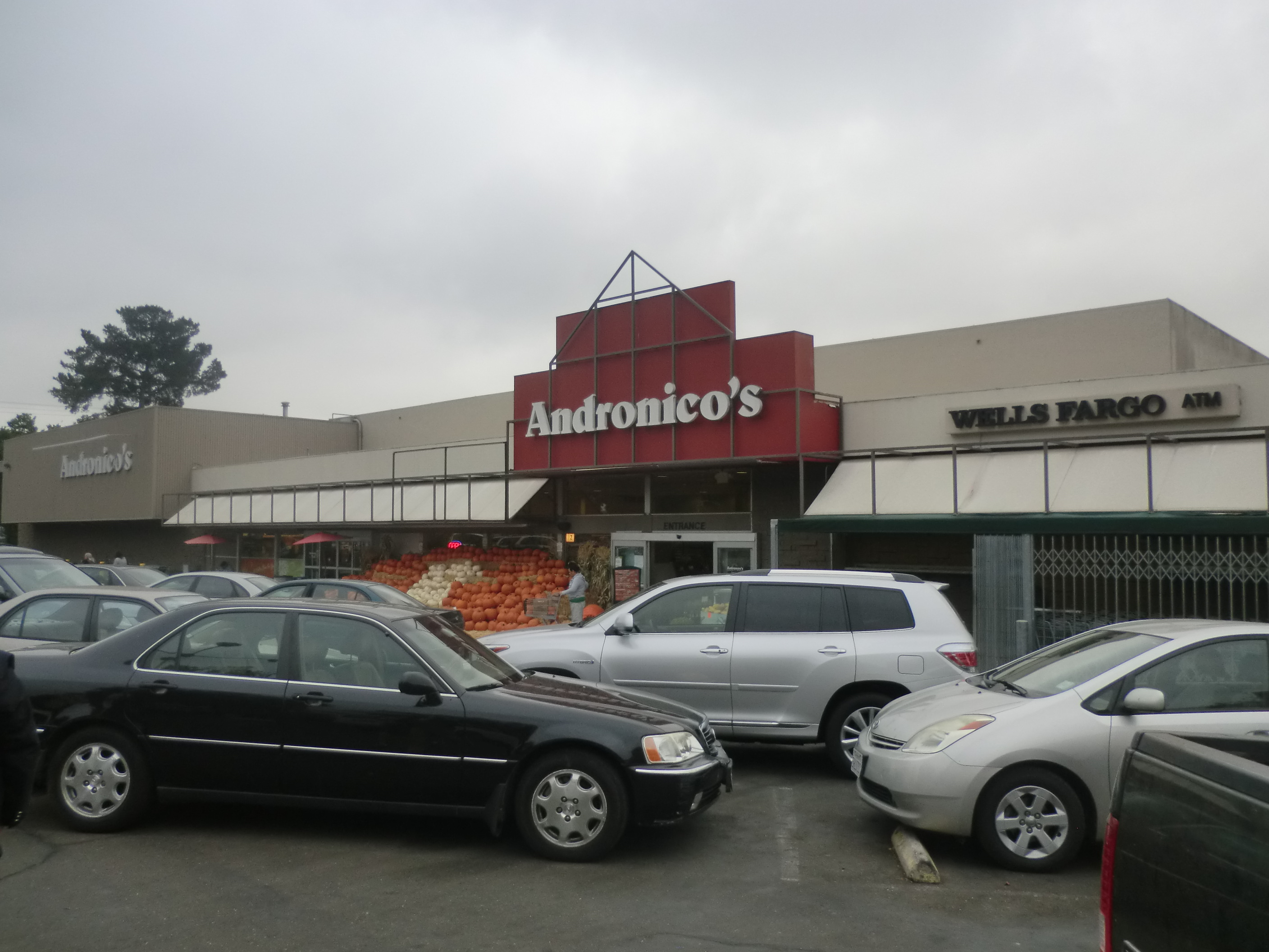 Andronico's store at Berkeley, CA, USA.